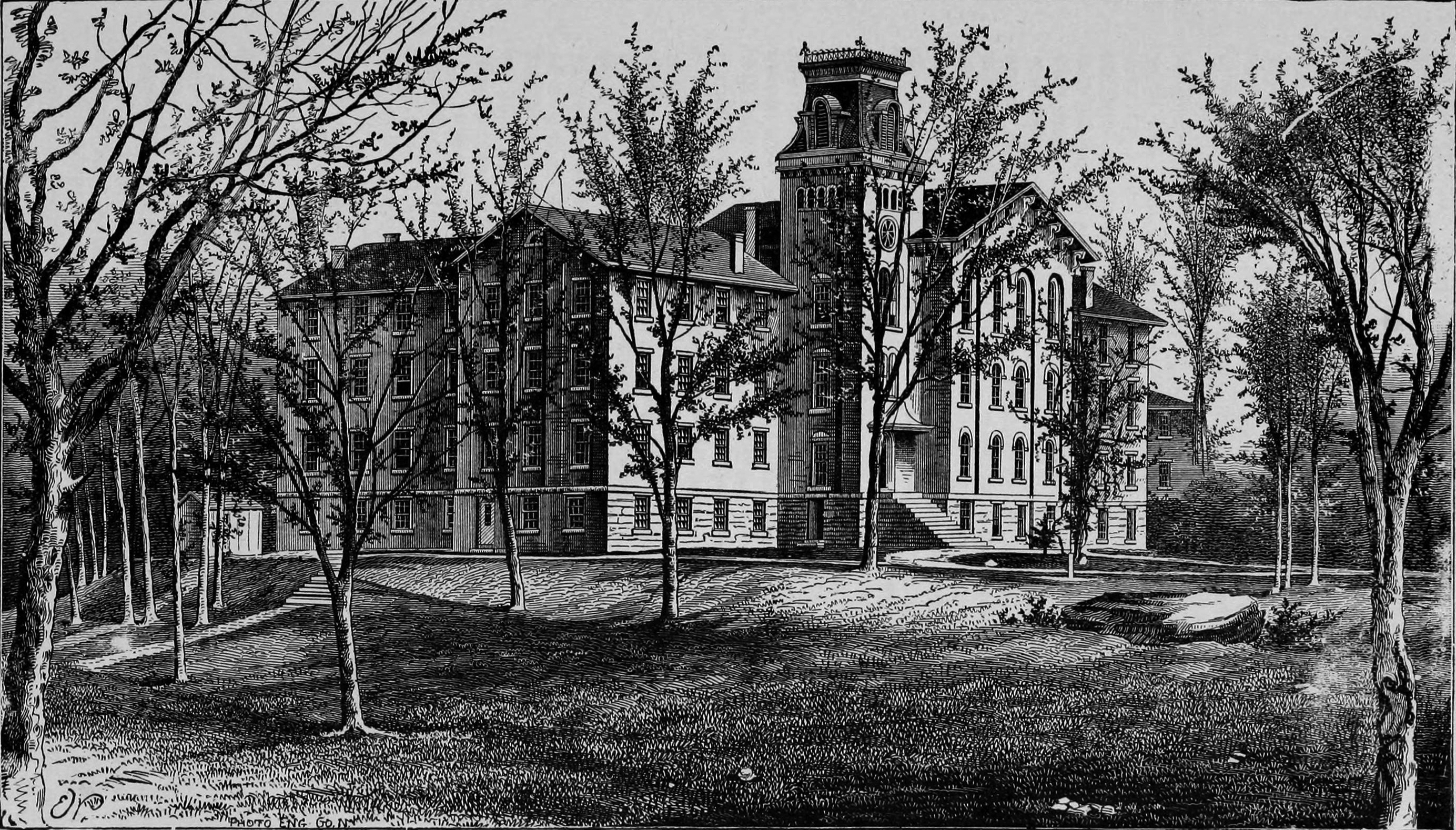 Engraving of Monnett Hall, Ohio Wesleyan University, Delaware, Ohio, produced in the 1860s.